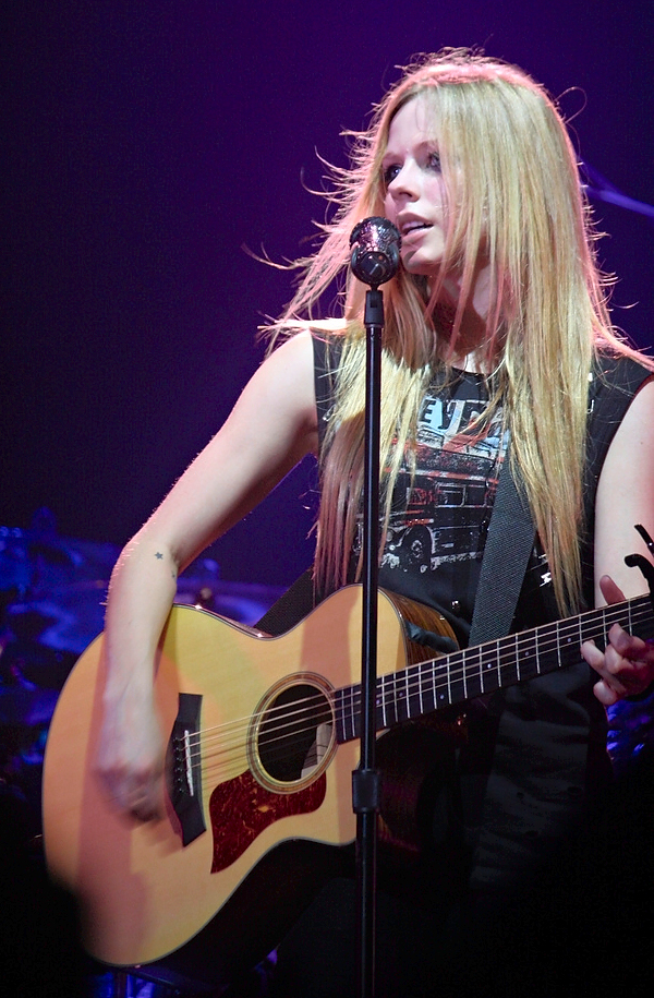 Avril Lavigne singing and playing acoustic guitar, during the Italy leg of her Black Star Tour on September 10, 2011. Photographed on a Canon EOS 1000D.